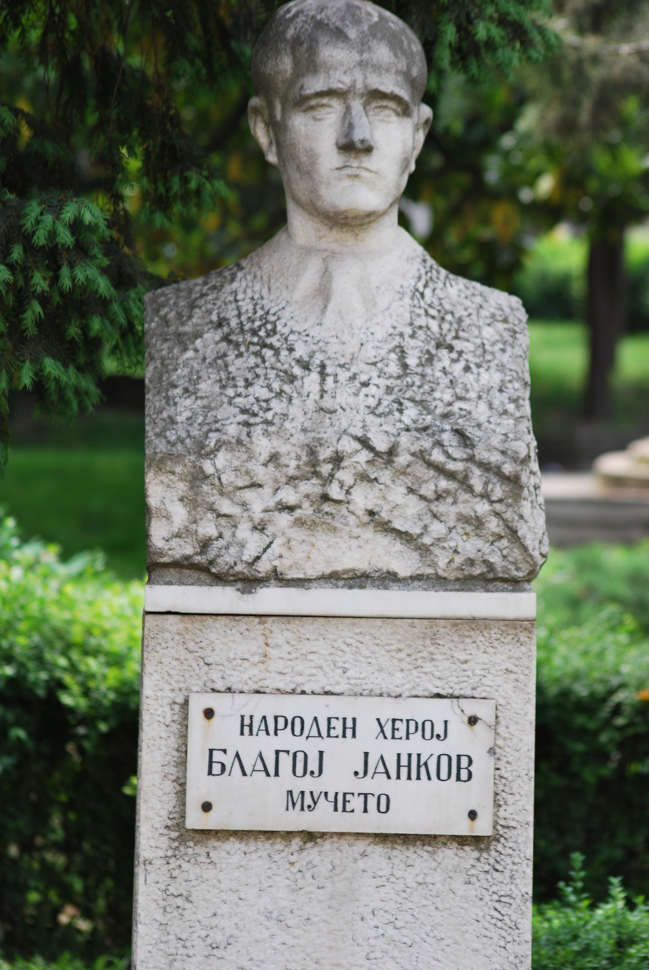 Statue of Blagoj Jankov in Strumica, Macedonia